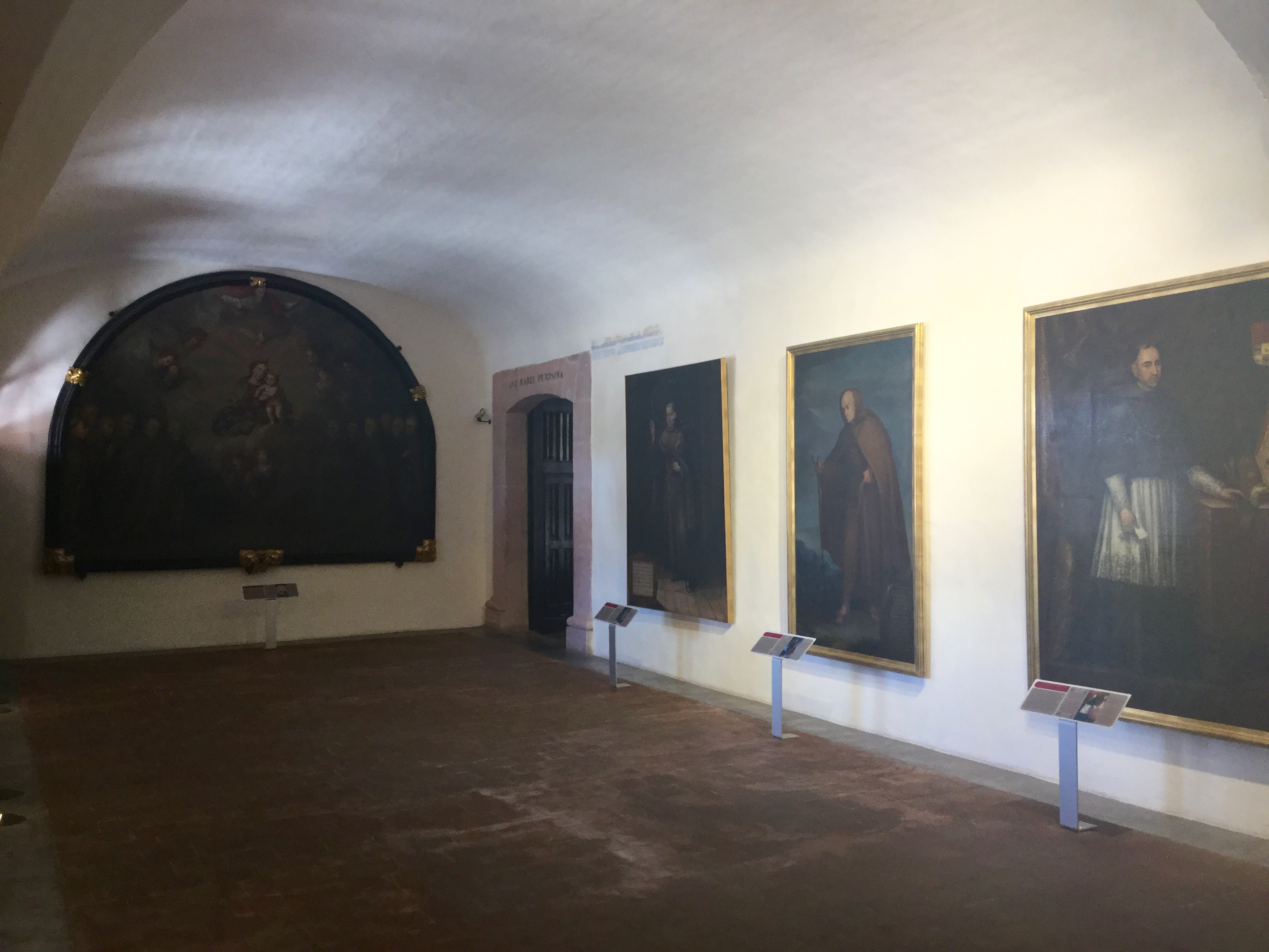 Portería